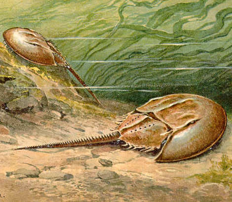 Horseshoe crabs, Limulus